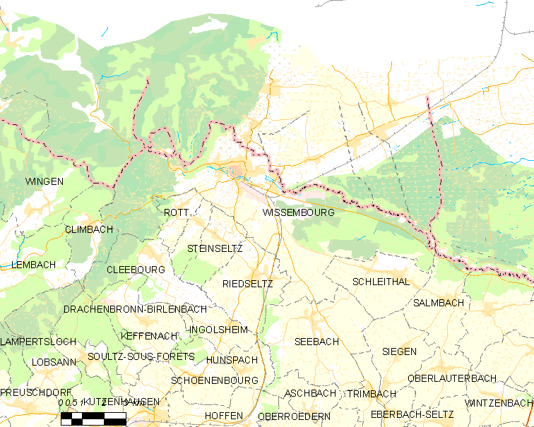 Map of French municipality